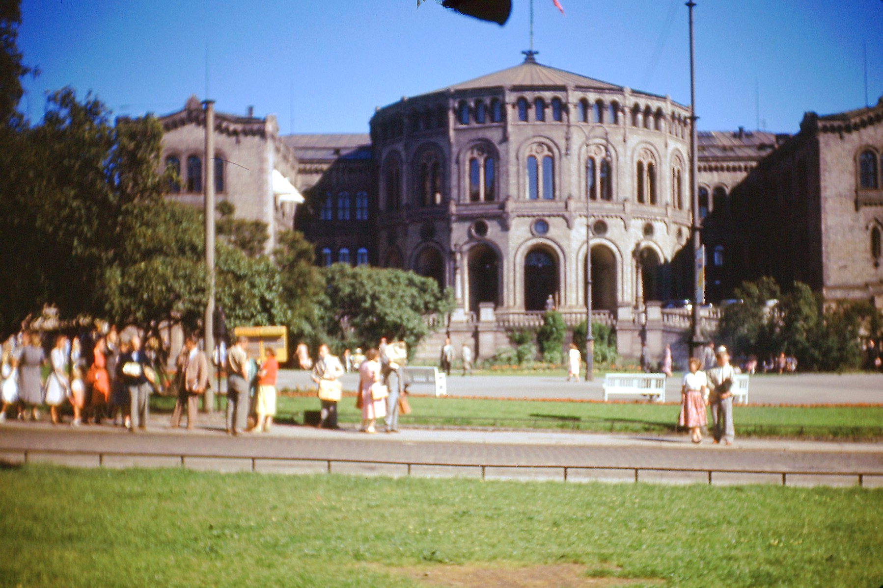 Stortinget in Oslo, Norway